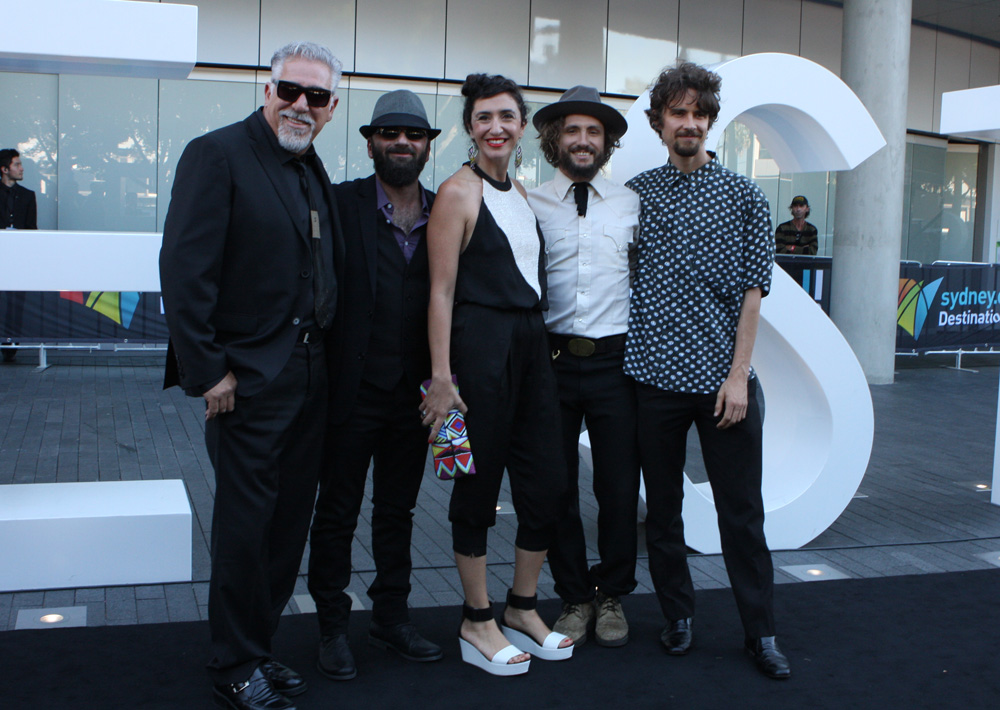 Left to right: ?, ?, Mama Kin (Danielle Caruana), John Butler (musician) and ? at the Aria Awards 2013 in Sydney Australia